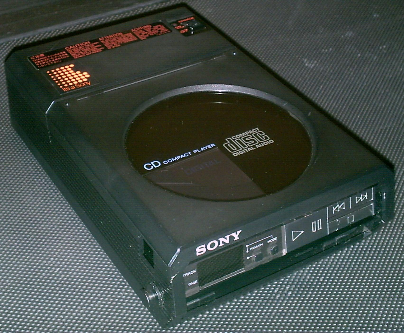 Sony D-50 CD player with optional EBP-9LC rechargeable battery station.